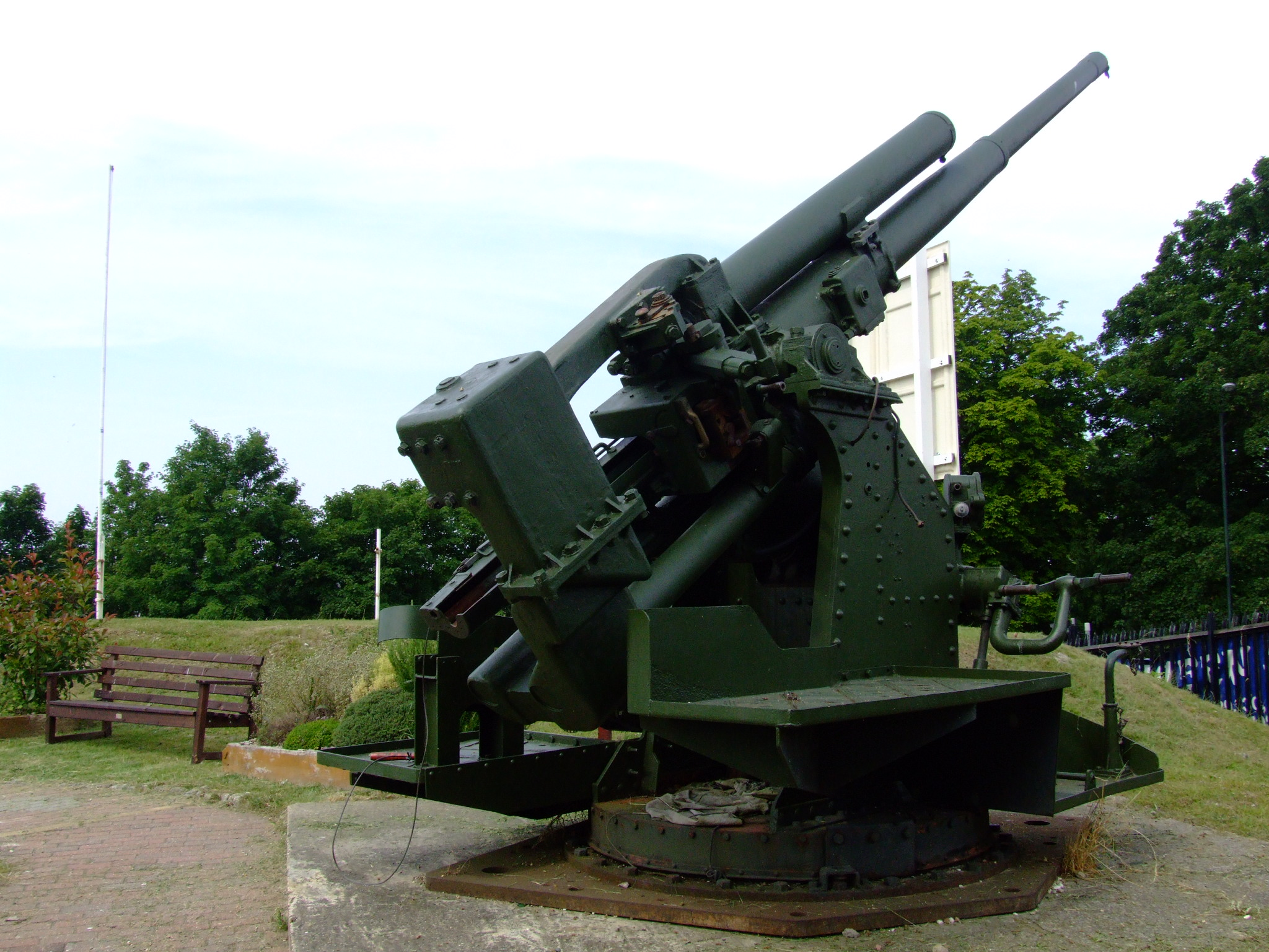 Fort Amherst defends Chatham Dockyard in Kent. It is the home of Medway Historical Ordnance. 3.7 inch Heavy Anti-aircraft gun. This one was manufacture in 1943 by Vickers, after WW2 it was sold in a batch to Portugal for use in Angola where it saw service. It was sold back to a British arms dealer and restores at Fort Amherst. It required a crew of 8 man, and fired a 28lb shell to 32000ft in 50 secs.